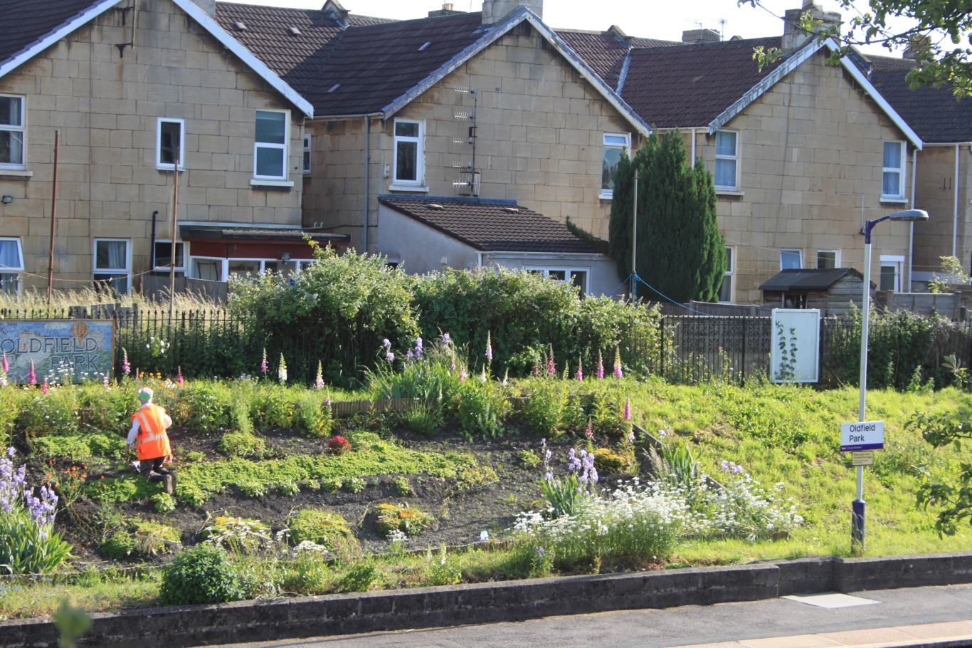 A community railway volunteer tends the station garden at Oldfield Park in Bath, Somerset.